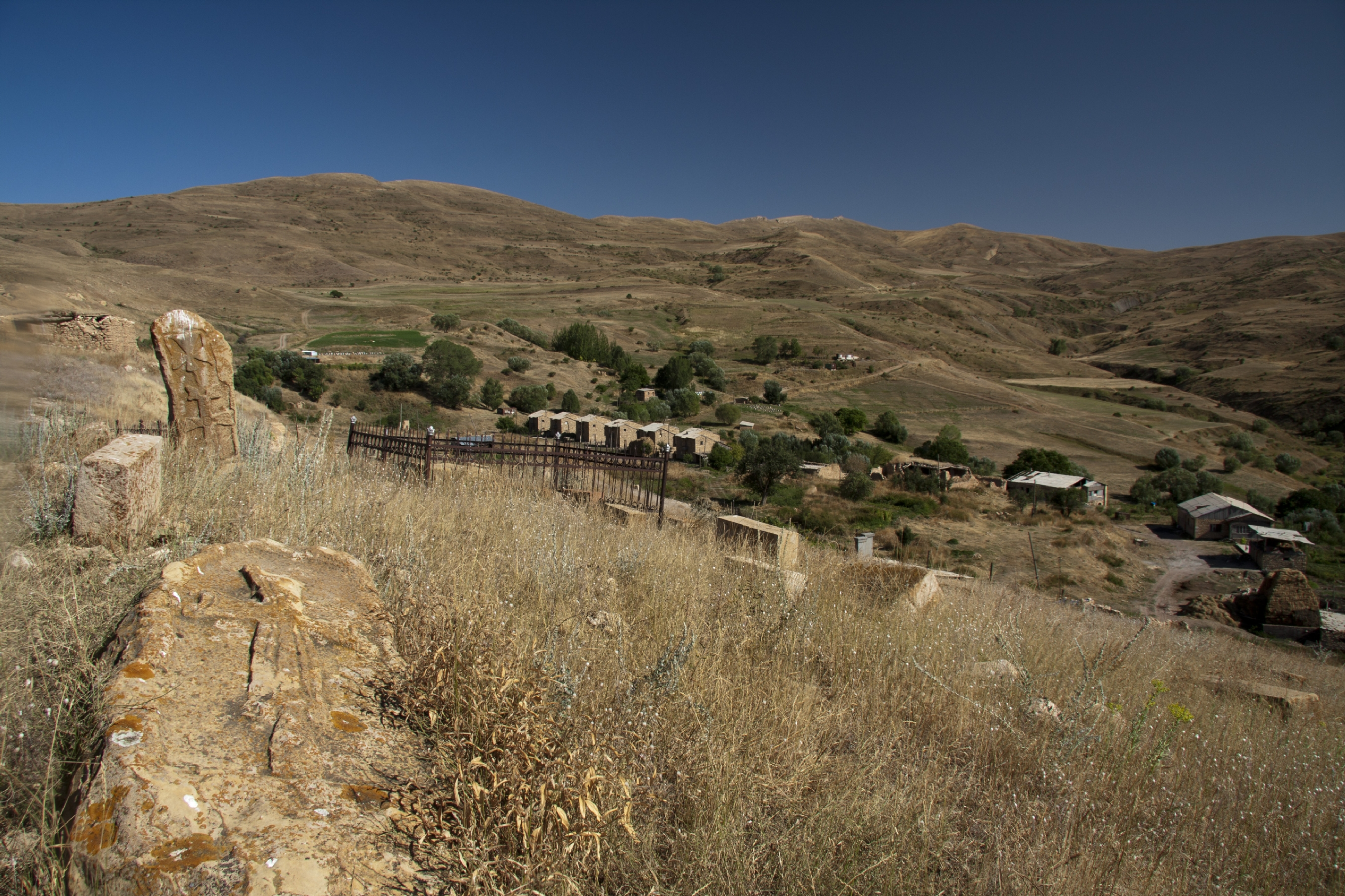 Գնիշիկ 17/1.1